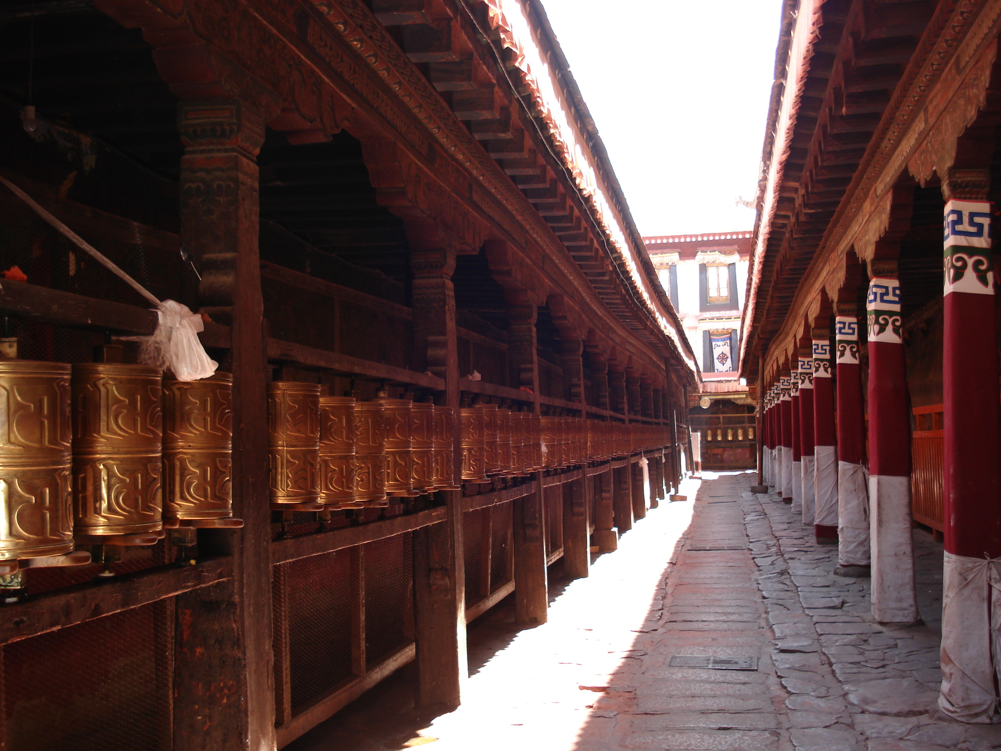 Jokhang prayer wheels in 2007